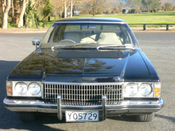 1974–1976 Statesman HJ Caprice.